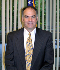 Photograph of Mark Myers, an American geologist. Fourteenth director of United States Geological Survey, 2006–2009.